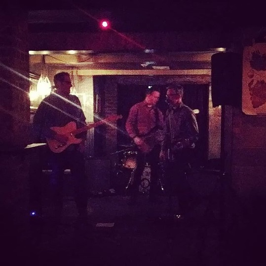 Tri-State at Pet Shop in Jersey City, 20 March 2018.